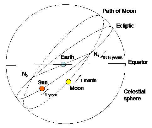 Diagram showing the precession of nodes of the Earth-Moon system